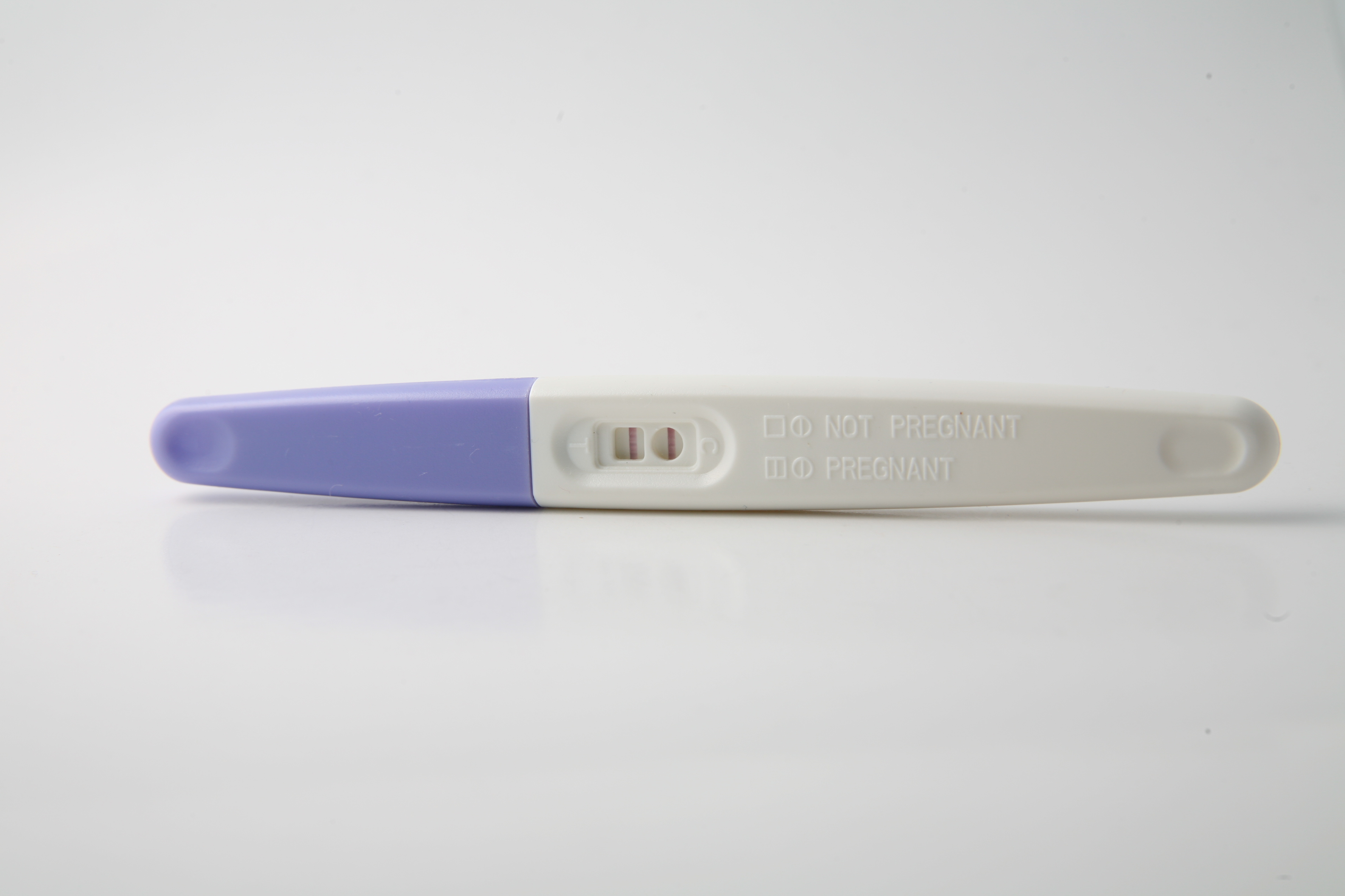 Pregnancy test